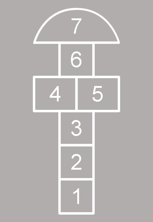 Hopscotch